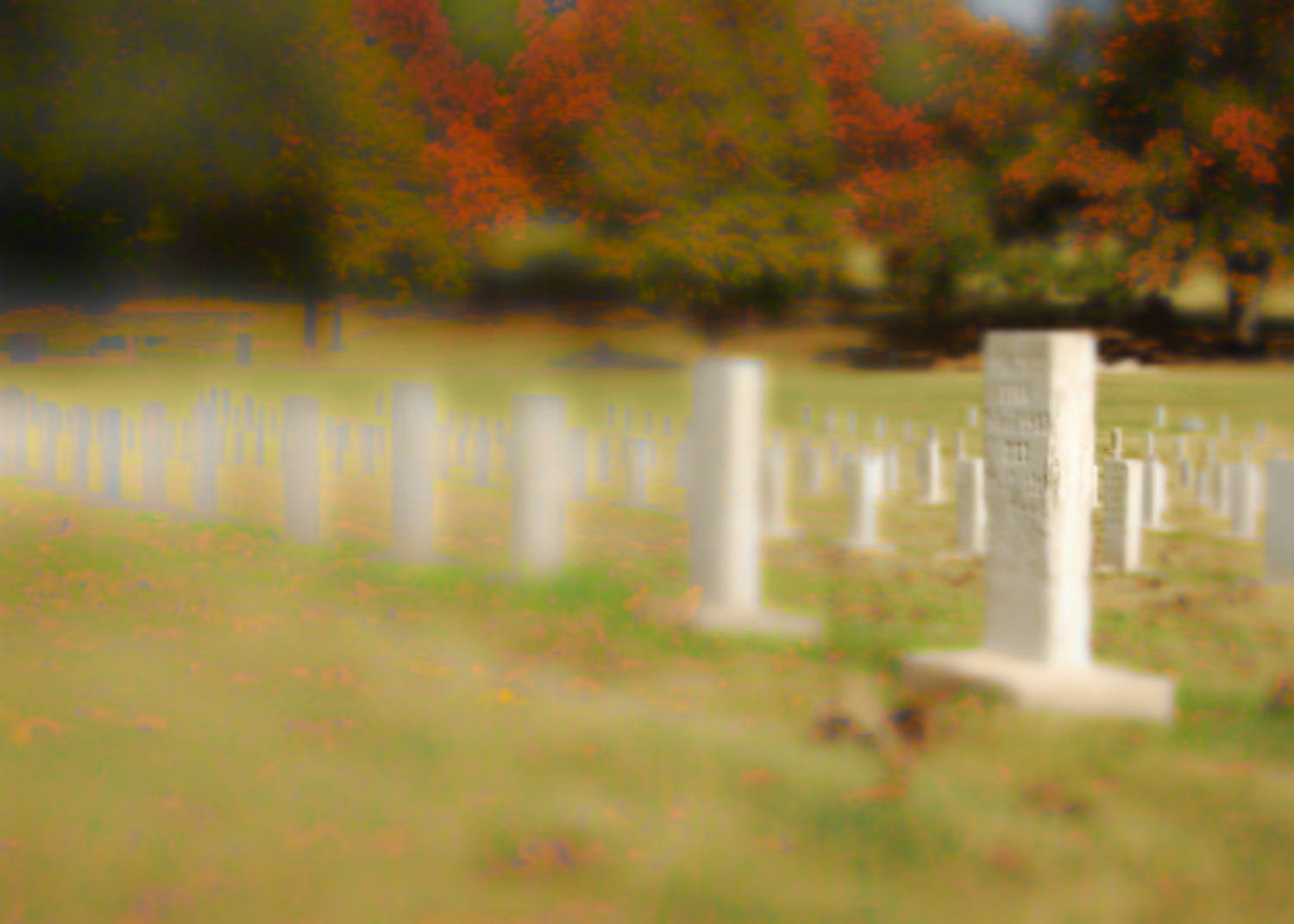 Foveated tombstones